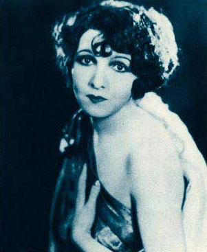 Publicity photo of Carmelita Geraghty from Stars of the Photoplay